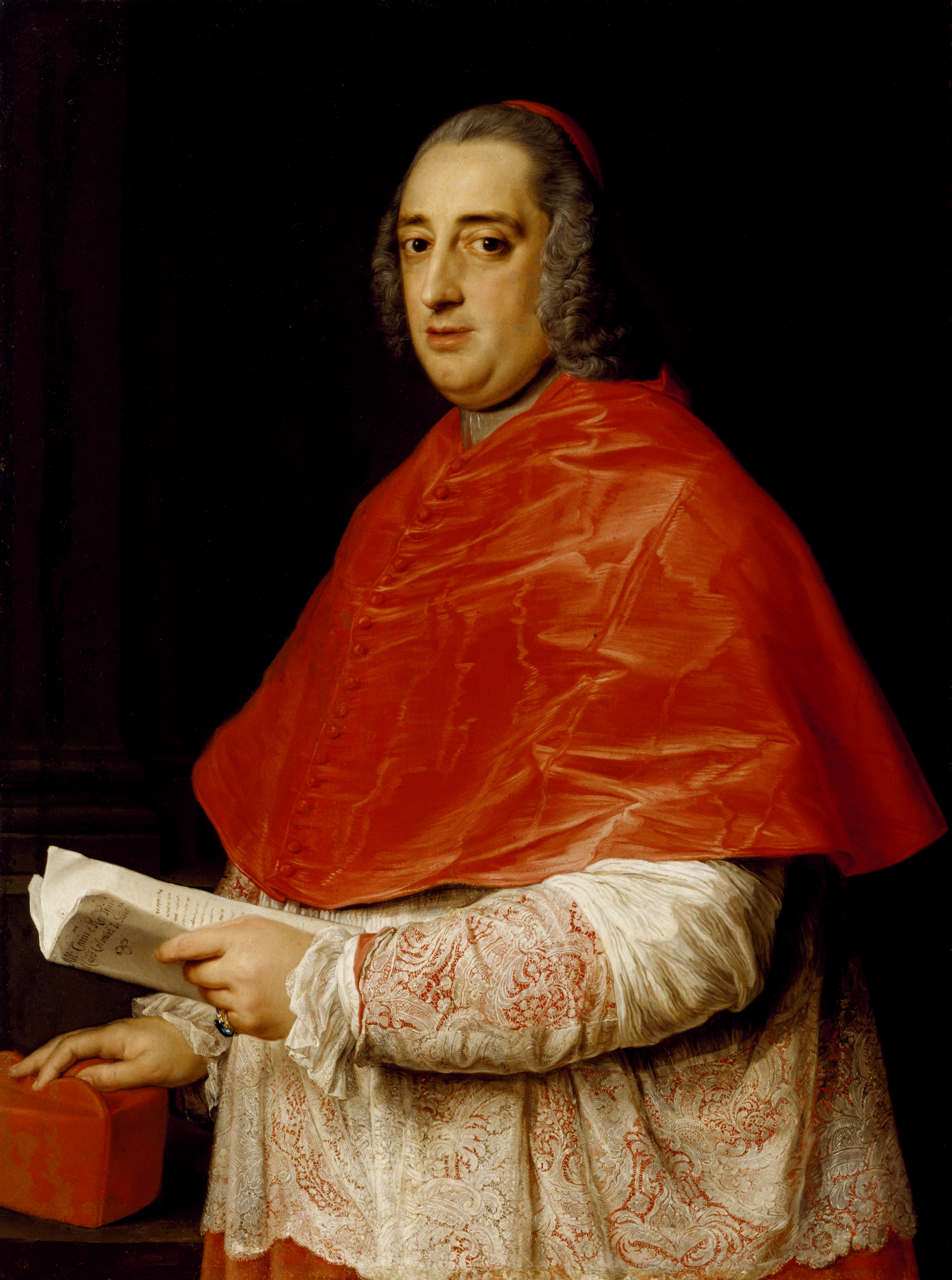 Batoni was particularly famous for his portraits and had many elite clients, such as Cardinal Prospero Colonna di Sciarra (1708-65), who was a member of a great Roman noble family. The cardinal can be identified by the letter he holds, which is addressed to him. The red color of the clothing of his ecclesiastic office produces an imposing effect against the dark background. Batoni's virtuosity in the handling of paint comes through in the meticulous depiction of different textures, such as hair, silk, and lace.